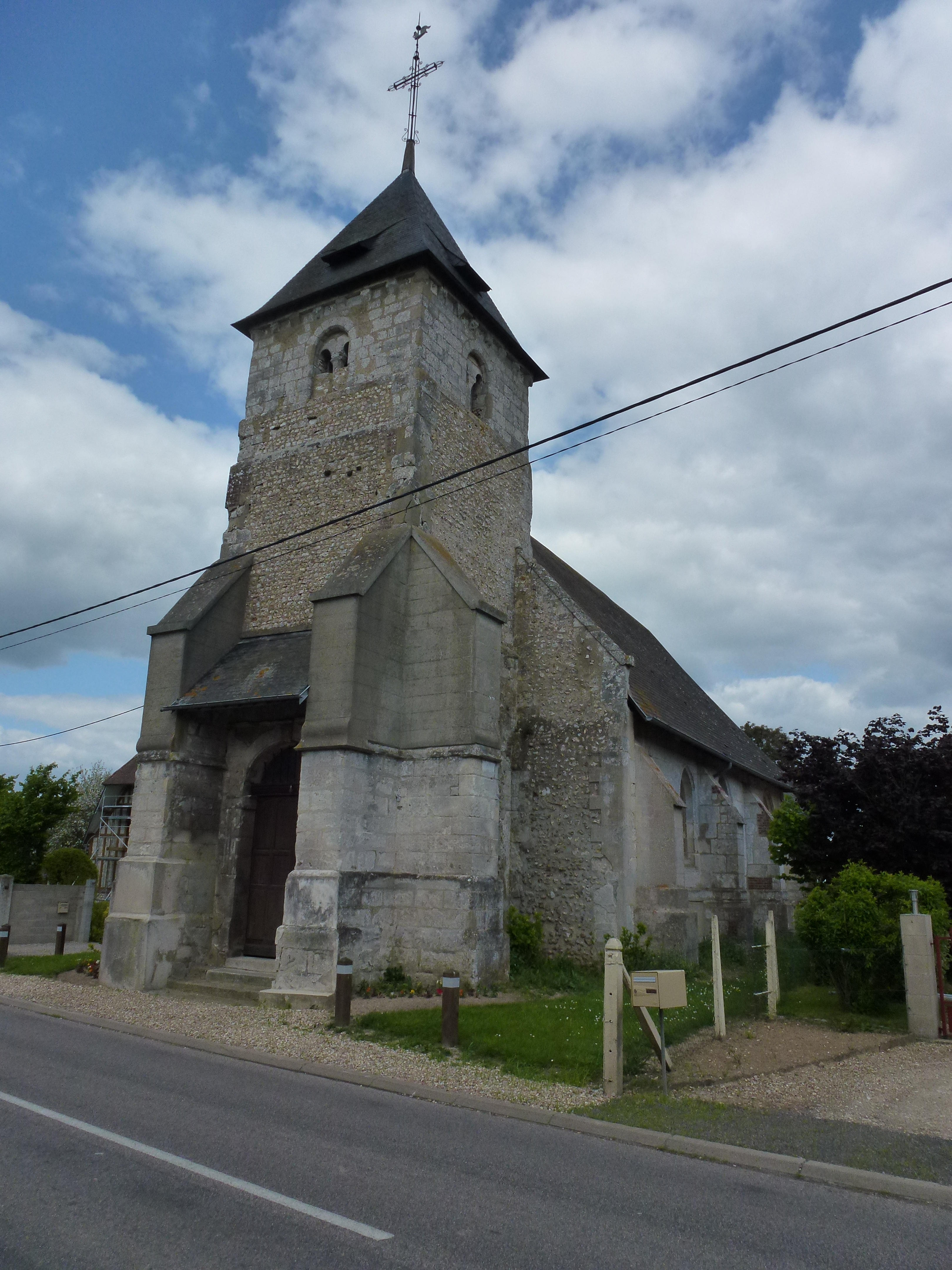 Épégard (Eure, Fr) église